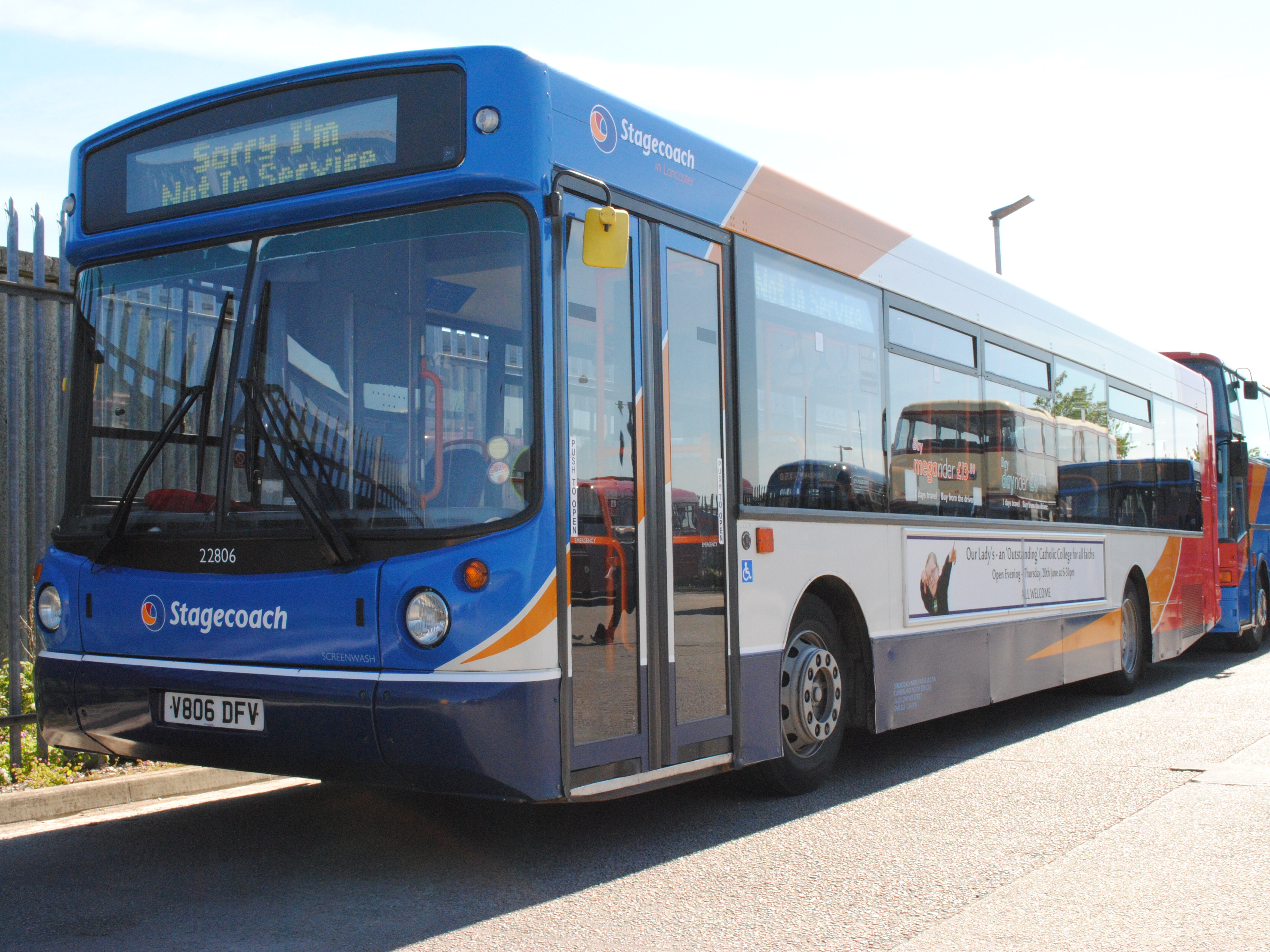 Alexander MAN 18.220 ALX300. seen here in Stagecoach Cumbria & North Lancashire Open Day at Morecambe White Lund Estate bus depot